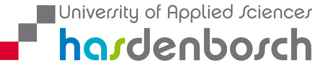 HAS University of Applied Sciences logo